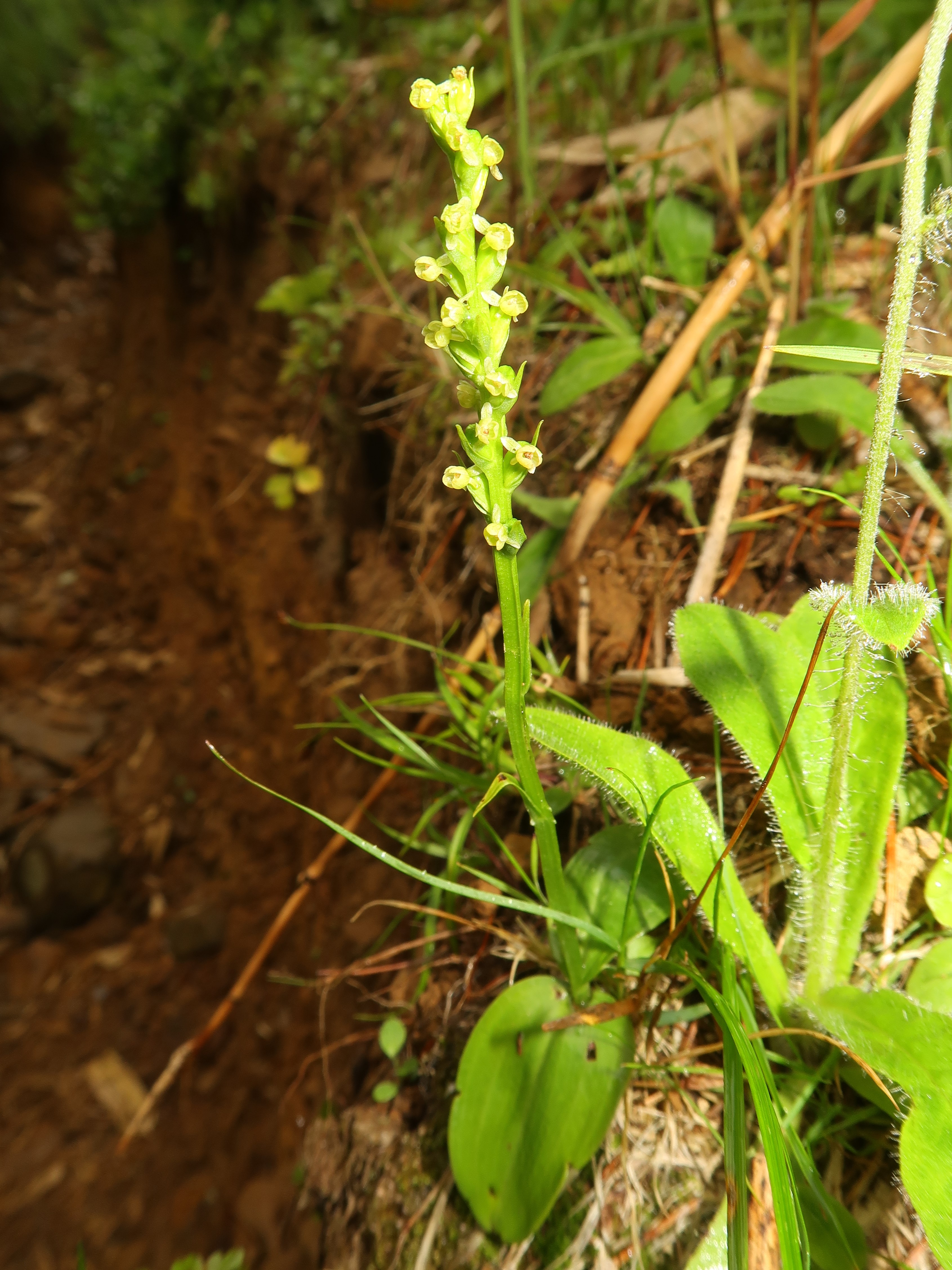 Platanthera chorisiana, Mount Hachimantai, Iwate pref., Japan